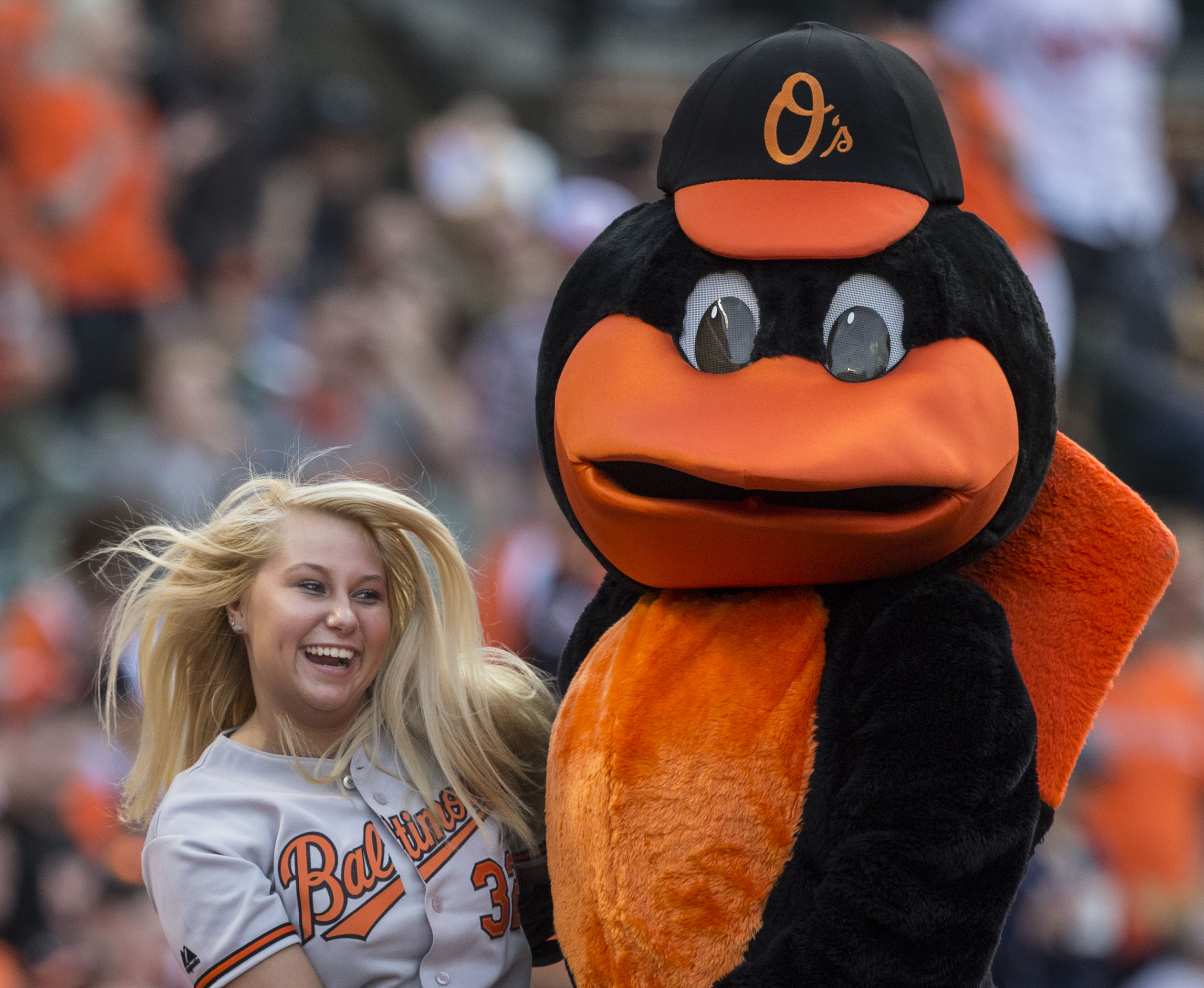 Baltimore Orioles mascot in a game vs Pirates 5/1/14